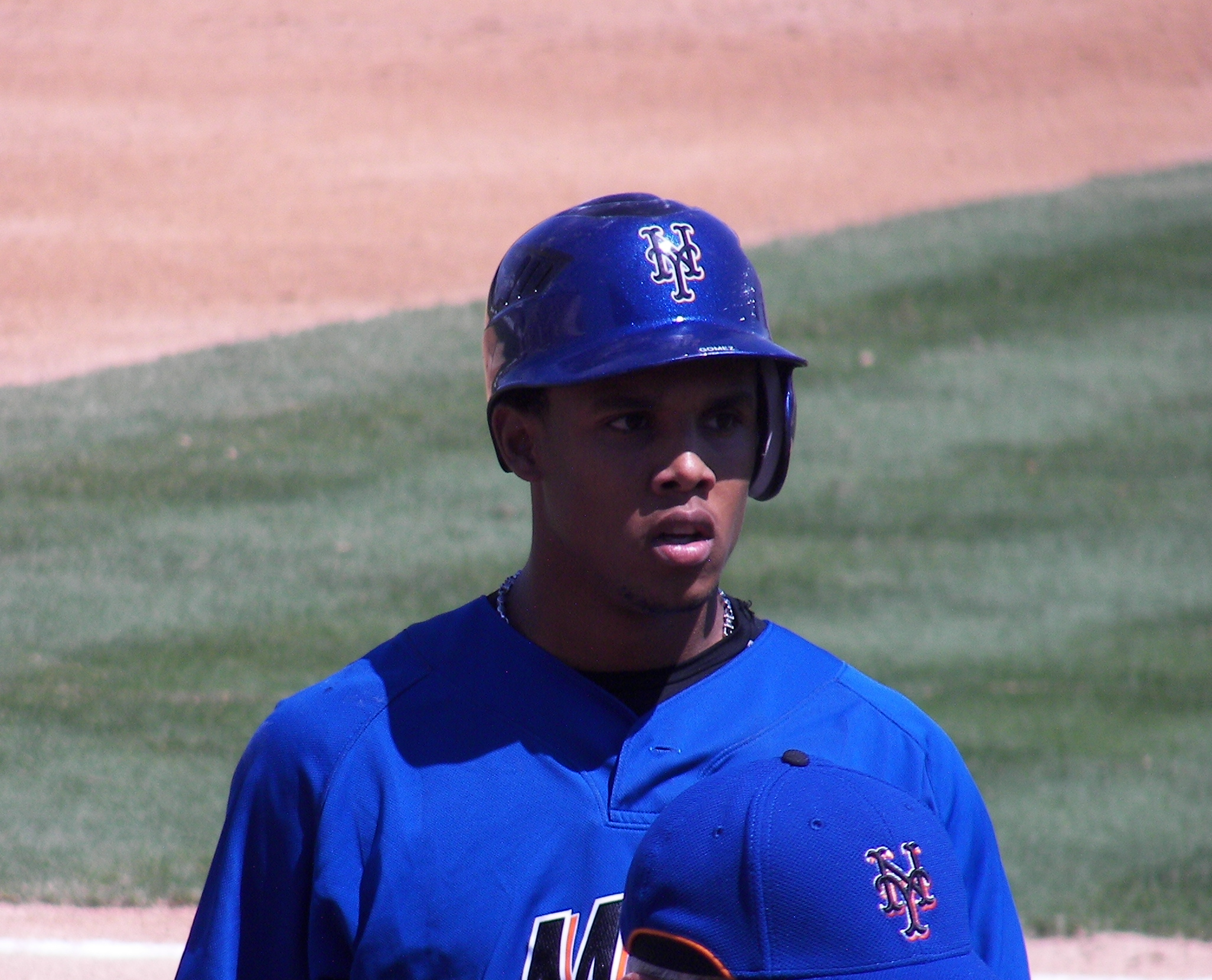 New York Mets outfielder Carlos Gómez during a Mets/Detroit Tigers spring training game at Joker Marchant Stadium in Lakeland, Florida.